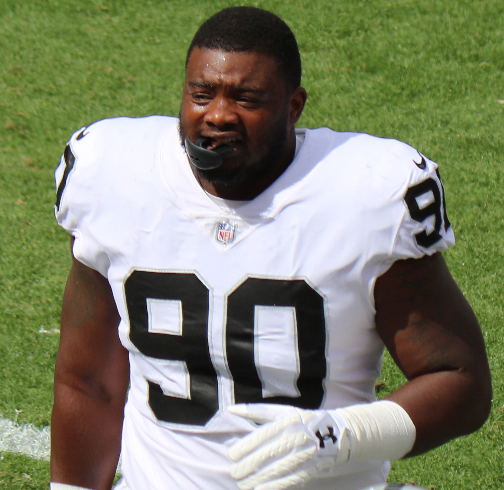 Treyvon Hester, a player on the National Football League.